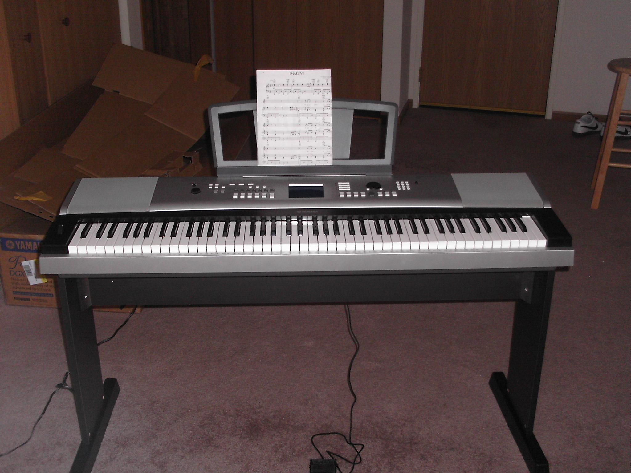 Yamaha Electronic Baby Grand Piano (exact model in this photo is Yamaha DGX-520, introduced in 2006. Yamaha DGX-620 is the same but different colour and graded hammer action keyboard of course) YAMAHA DGX-520 88 Key Lightly Weighted Action Portable Grand